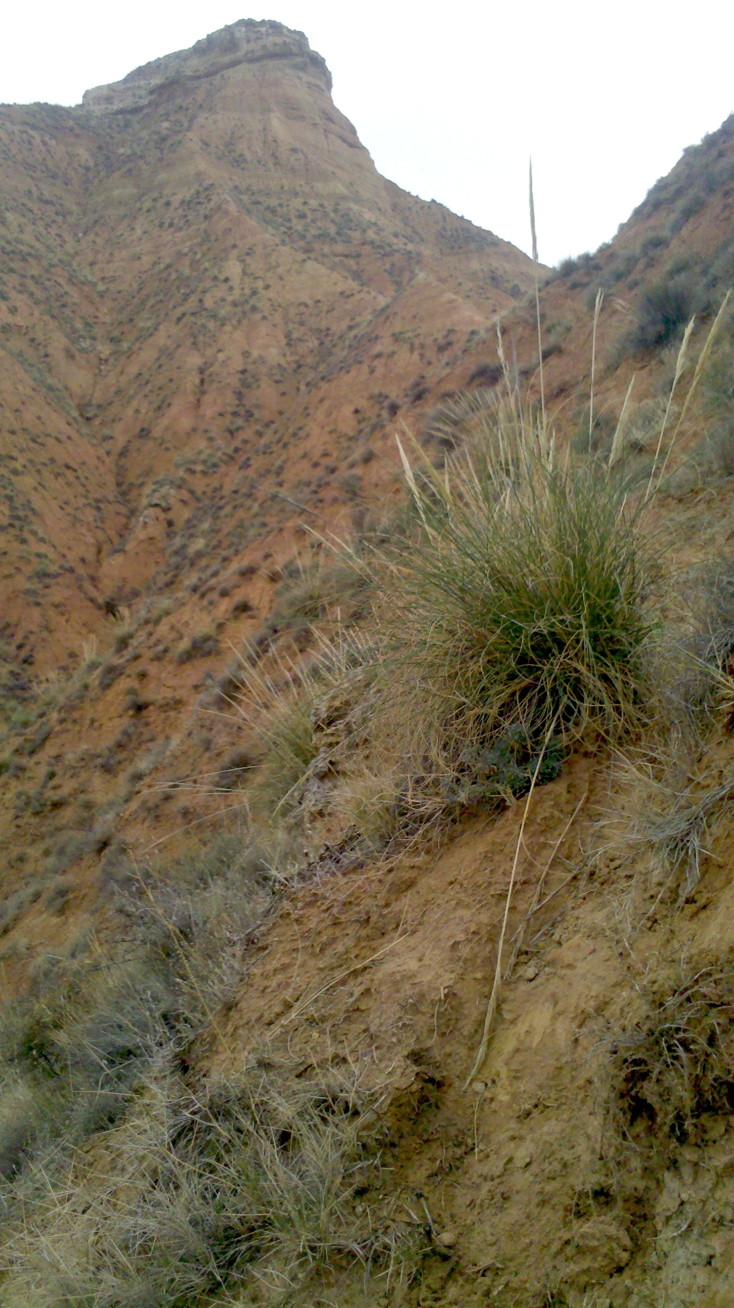 Pico del Aguila, Guadalajara, Spain